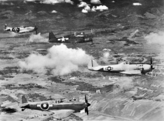 A "mixed grill" formation of a variety of aircraft led by a captured Japanese fighter aircraft Nakajima Ki-84 Hayate (Gale, allied code name "Frank"), of the Technical Air Intelligence Unit SWPA which had been discovered at an abandoned airfield in Luzon, Philippines, after the U.S. recapture of the island in January 1945; the first aircraft of this type was disovered on the island of Leyte. This aircraft was operated by the Technical Air Intelligence Unit, South West Pacific Area (SWPA) located at Clark Field, Luzon (Philippines), from the end of January 1945. Other aircraft in the formation are a Royal Navy Seafire (lower left), a U.S. Navy Grumman F6F-5 Hellcat, and a USAAF North American P-51D Mustang. The Nakajima Ki-84 models fitted with engines exceeding 1800 horsepower could surpass the top speeds of the P-47D Thunderbolt and the P-51D Mustang at 6,000 m.